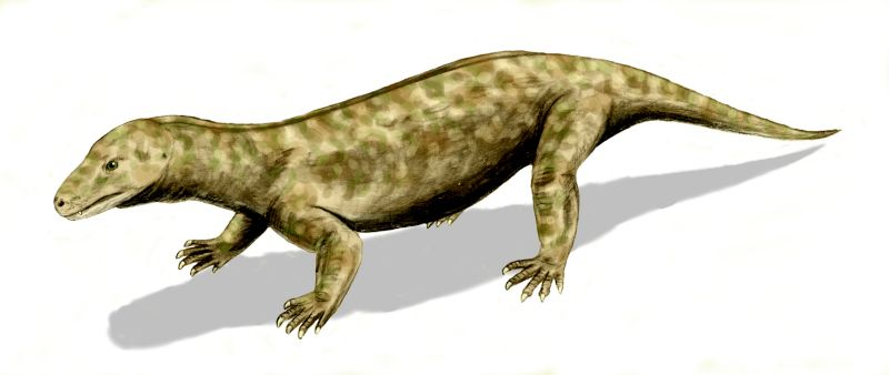 Procynosuchus delaharpeae, a primitive cynodont from the Late permian of South Africa, pencil drawing